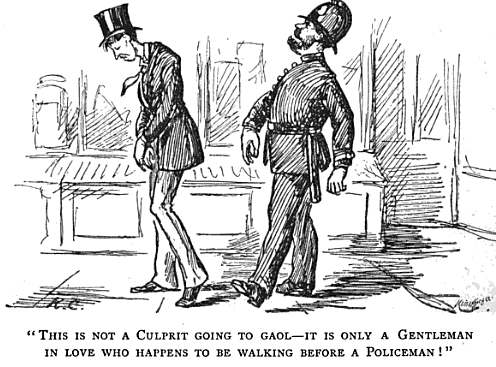 Pen & ink drawing